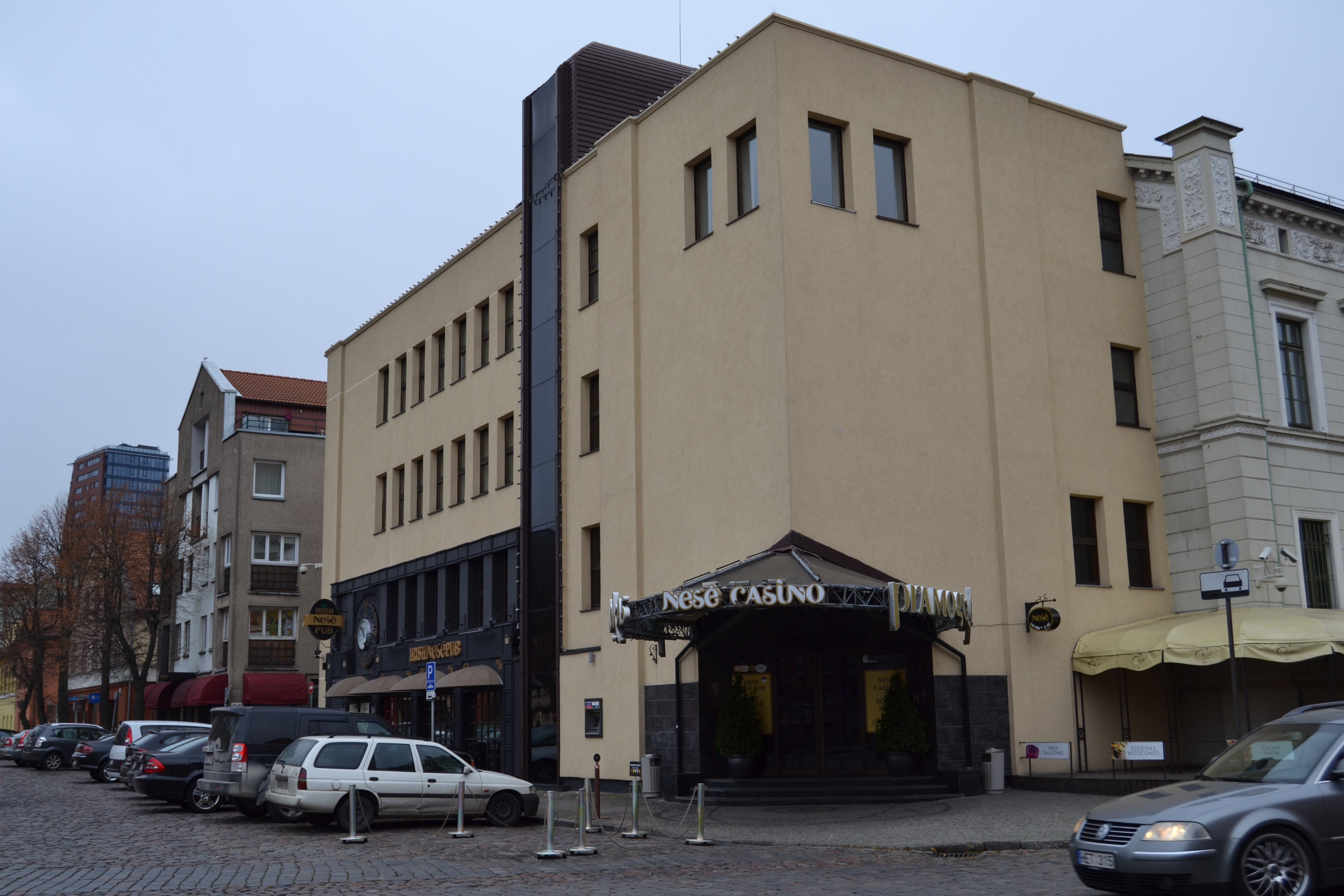 Nese Pramogu Bankas Klaipeda